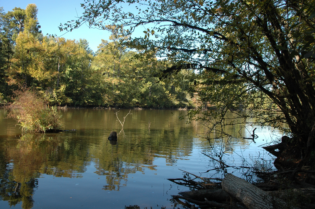 A photo of the Little River in the Pond Creek National Wildlife Refuge